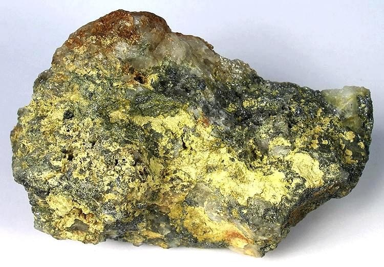 Molybdite, Molybdenite Locality: Questa Molybdenum Mine (Moly Mine; R and S Mine), Questa, Taos County, New Mexico, USA (Locality at ) Size: 11.0 x 6.7 x 4.1 cm. Molybdite is an uncommon molybdenum oxide and this cabinet specimen is a rare and rich specimen from New Mexico out of the Mullane Collection. Pastel-yellow molybdite richly covers the metallic-gray molybdenite and quartz on both sides of this old-time piece from the Questa Molybdenum Mine in Taos County. Accompanied by an old and faded handwritten label.